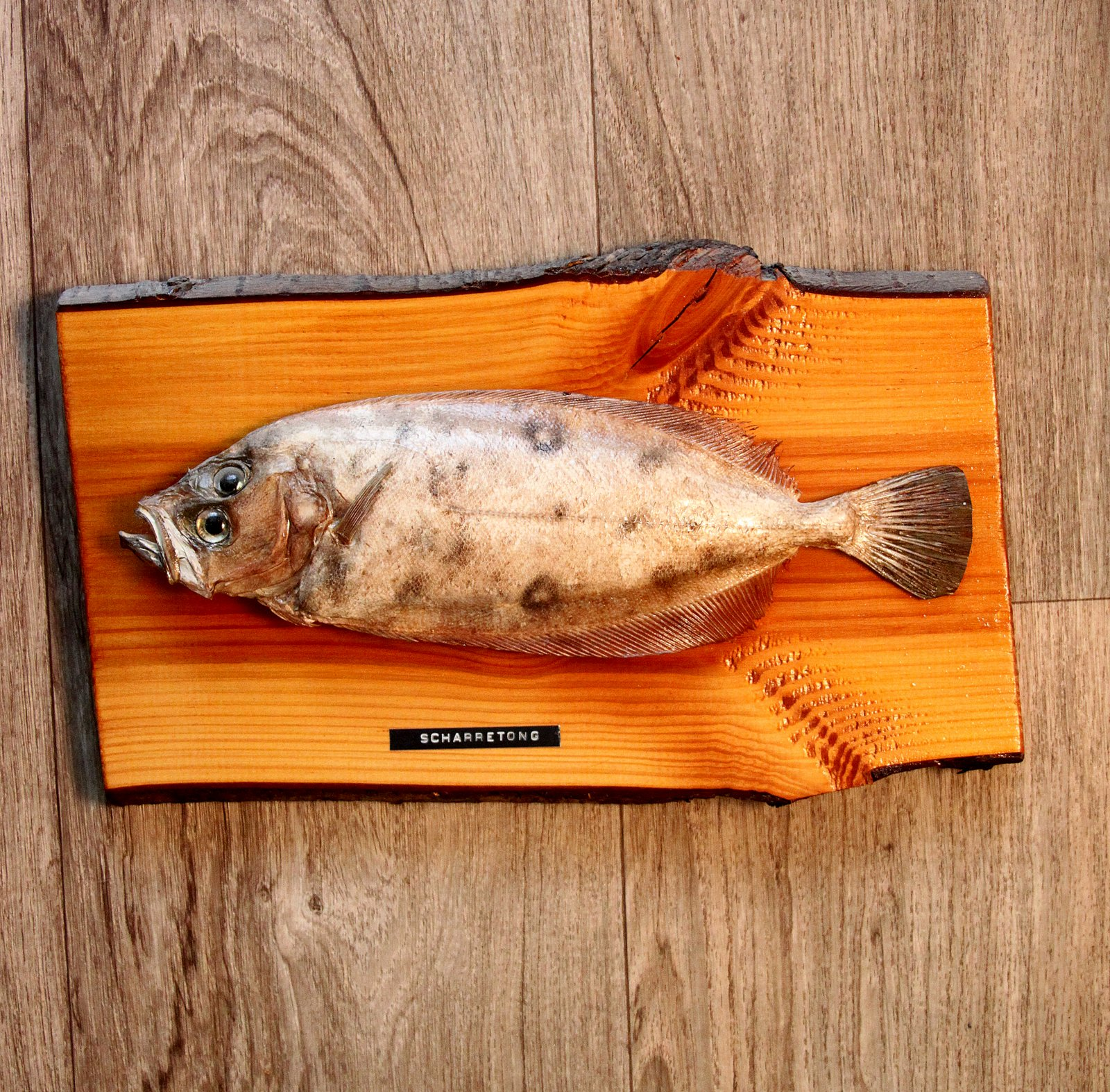 A megrim caught in Ireland